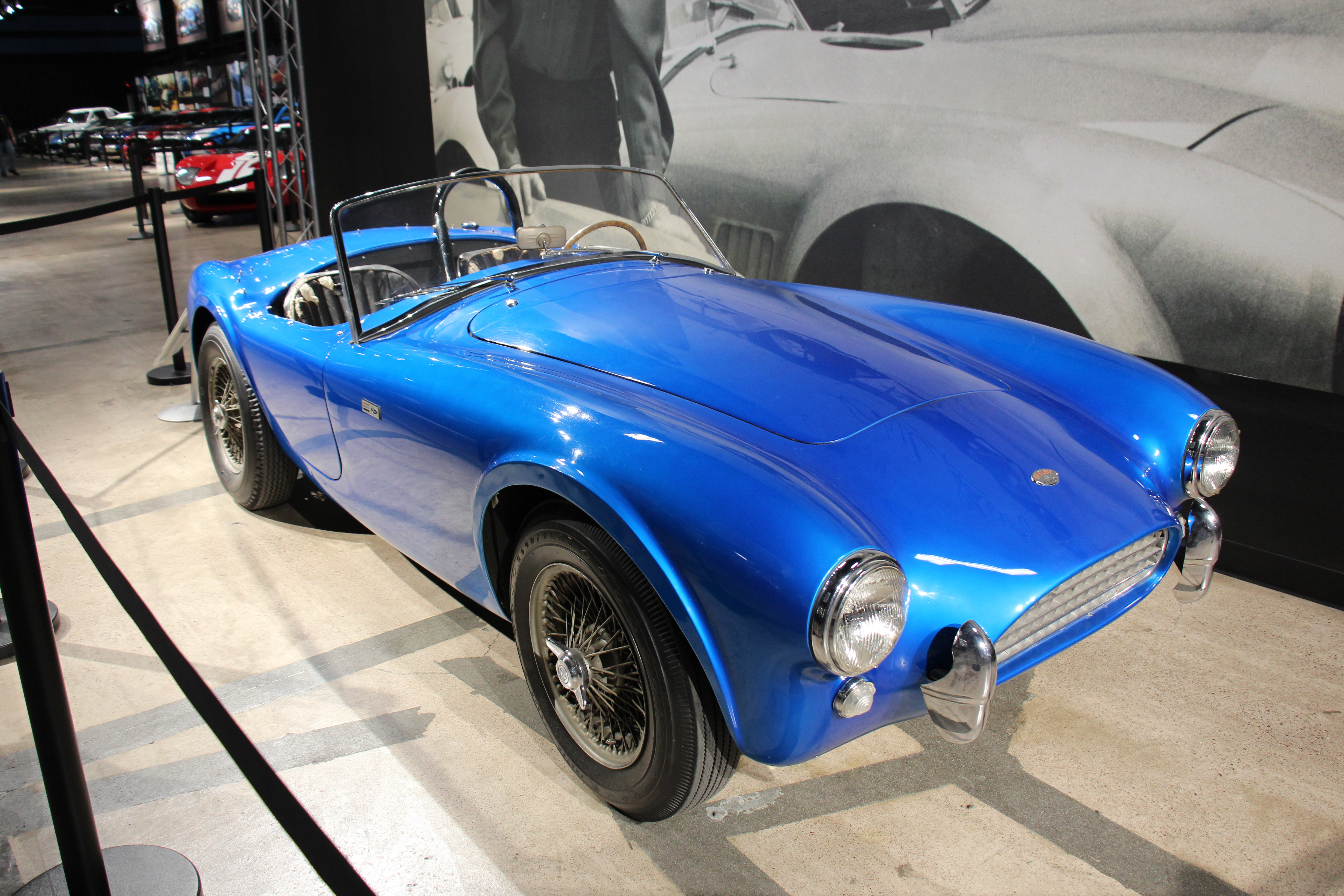 CSX2000, this is the first Shelby Cobra ever built, it has been owned by Carroll Shelby personally since it was built and is in its original condition. This car was used in many magazine articles in the day, the car was repainted several times, from magazine to magazine, to give the impression there was more than one of these first Shelby Cobras. Shelby America took the antiquated AC Ace chassis from England, inserted a small block Ford V8 and reengineered the car to handle. They took the car to the world championship sports car racing and beat all rival brands including the existing champion, Ferrari. 655 small block Cobras were built from 1962-65 'CSX2000,s DNA can be found in every Shelby car and high performance part we have ever built' - Carroll Shelby Engine; 260 cu in V8 Photographed at Shelby America headquarters, Las Vegas